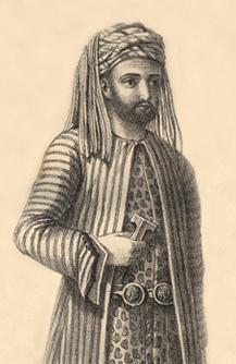 Omer Agha, officer of Ottoman Pasha, Seyh Mahmud of Suleymaniye, Iraq, 1820. Illustration of " An Officer of the Pasha of Sulimania" from CLAUDIUS JAMES RICH"s NARRATIVE OF RESIDENCE IN SULEYMANIYE 1836. Mr. Rich the celebrated British Resident [ diplomat], in Baghdad in 1808, travelled throughout Middle East in 1820 for health reasons!, and was the guest of the Pasha of Suleymaniye, Seyh Mahmud, the son of Seyh Abdur Rahman, who built the town of Suleymaniye. The Pashas of Suleymaniye were of the Baban Family, originally from Pizhder on the Persian border, and descendant of Suleyman Baba, who fought the Persians on the side of the Ottomans in the 17th. century. They were made Pashas of two tails in the 18th. century. "